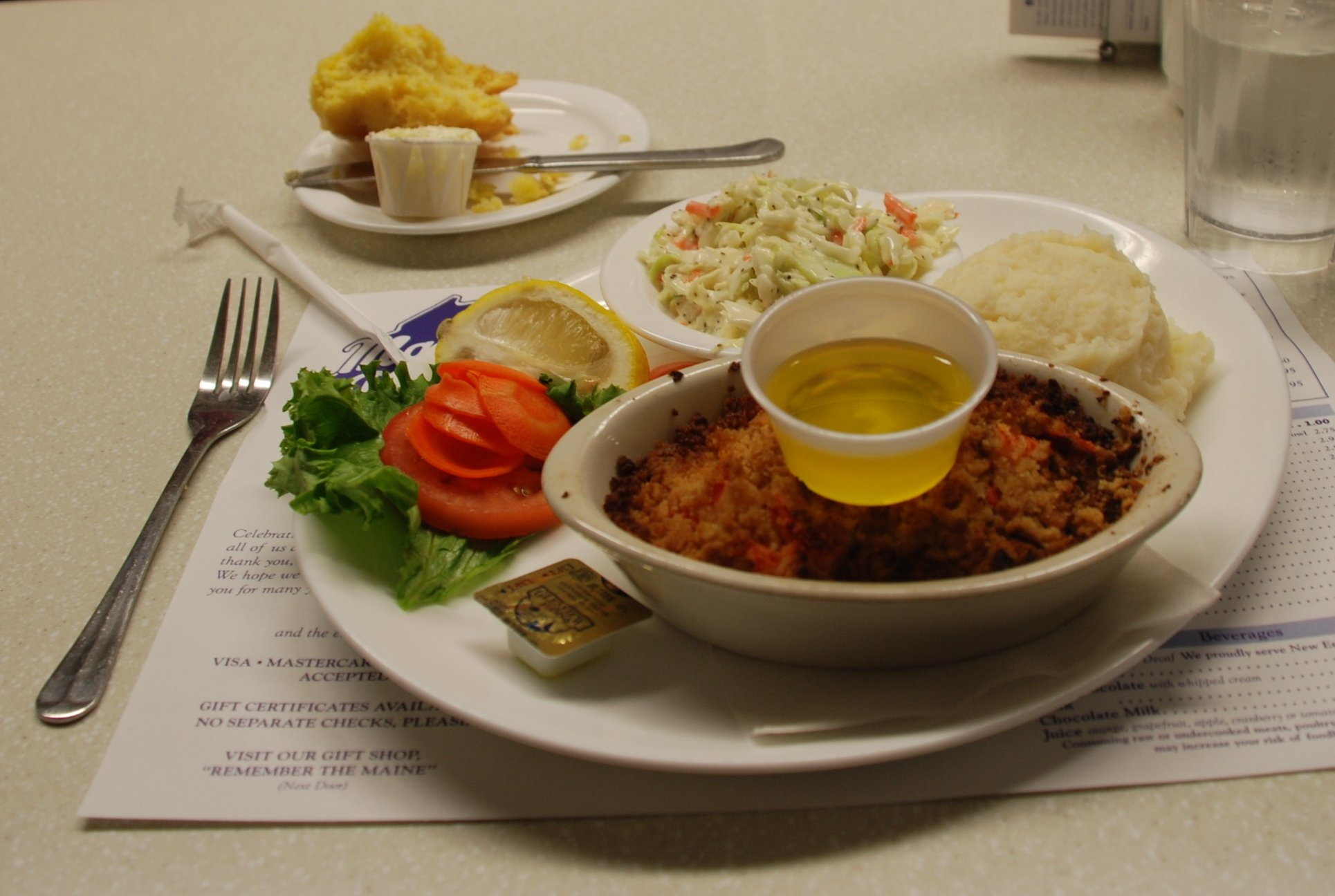 Lobster pie, as served at the Maine Diner. The Maine Diner is a diner in Wells, Maine, USA, which is known for its seafood chowder, lobster pie and other Down East fare. The pie as served here is lobster meat mixed with a roux-based sauce and topped with cracker crumbs. The dish is finished just before eating by pouring the melted butter served with it over the top.